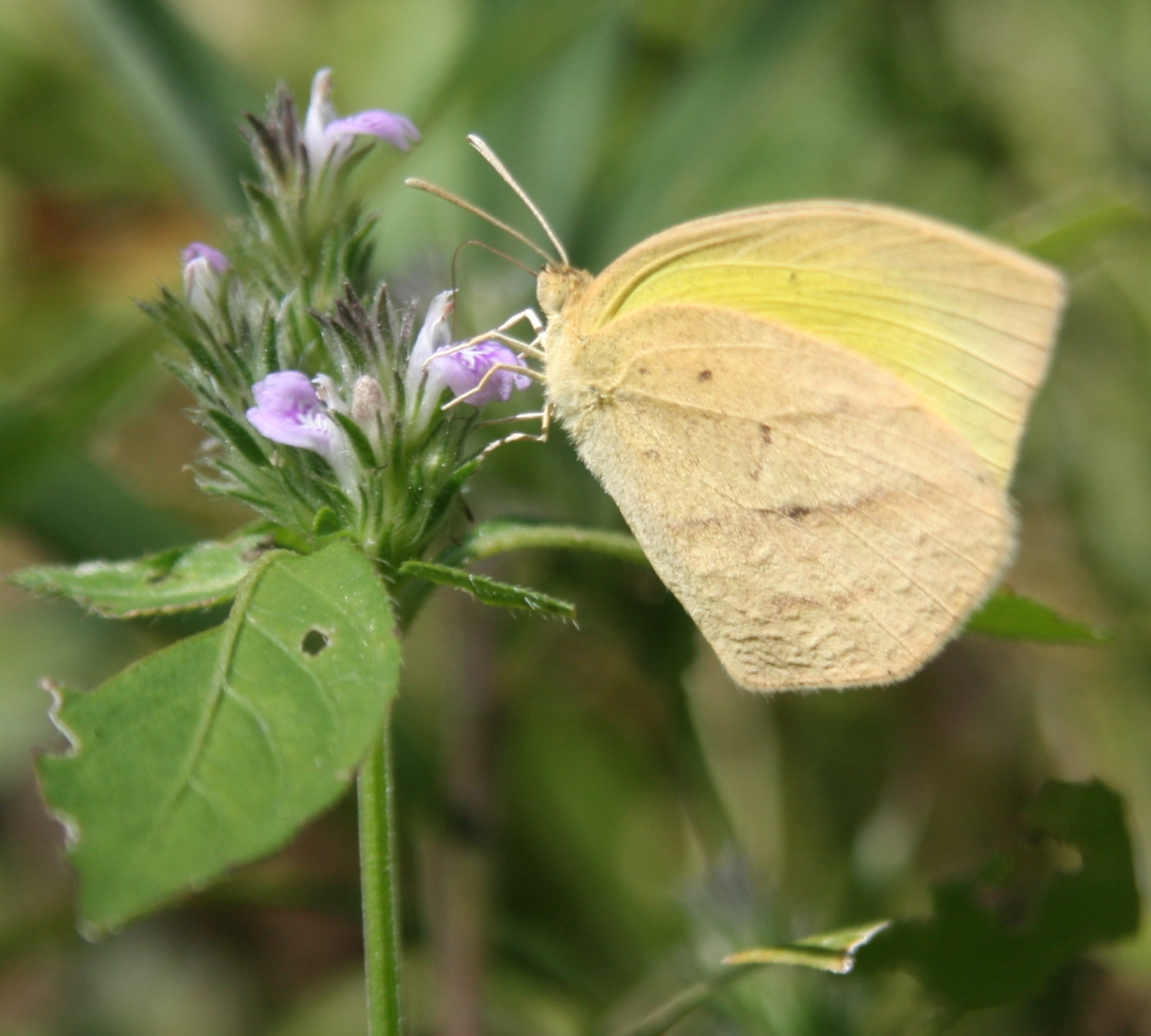 Eurema laeta (Eurema laeta betheseba) feeding on the nectar inside flower of Justicia procumbens L. var. procumbens, in Japan.